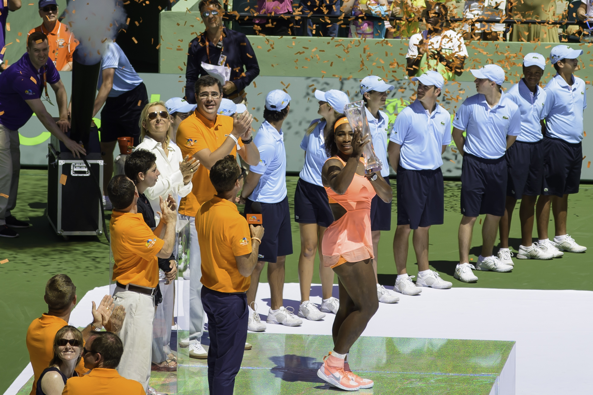 Serena Williams won her eighth Key Biscayne, Miami Open title while she has not been beaten in 2015, this is her 21-match winning in a row! ...only three women in the history of tennis had won an event eight times or more: Chris Evert, Martina Navratilova and Steffi Graf, which is about as esteemed list as you can get. After a dominant 6-2, 6-0 over Carla Suarez Navarro in the finals of the Miami Open, Serena Williams can be added to it. Ref: Despite Saturday's hammering, Suarez Navarro can be happy with her week in Miami where she captured some big scalps including that of Serena's elder sister Venus Williams in the quarter finals. Ref: Key Biscayne, Miami, Florida. 5 6 ISO: 100